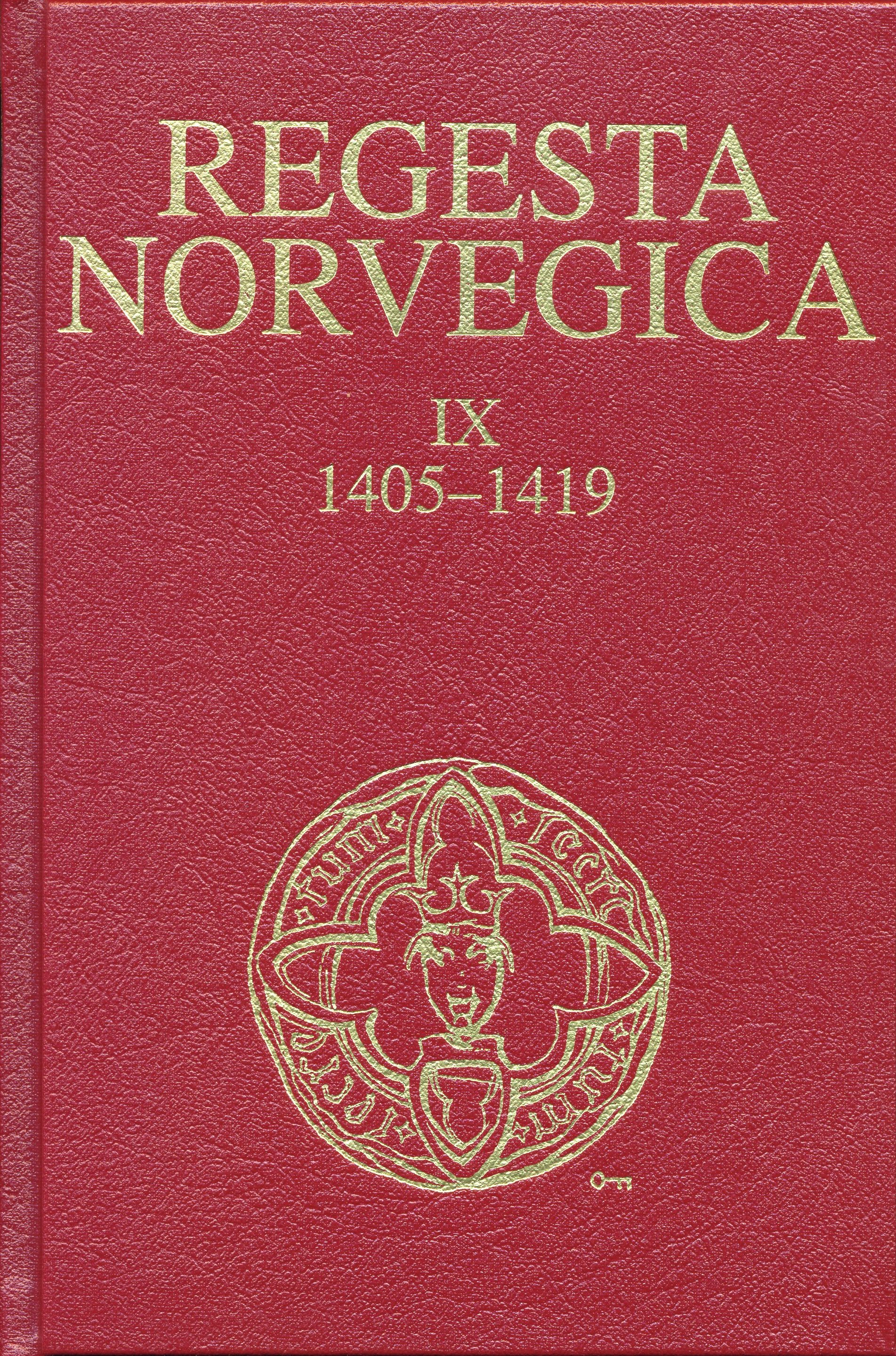 Book cover Regesta Norvegica volume IXNorsk bokmål: Bokomslag Regesta Norvegica bind IX